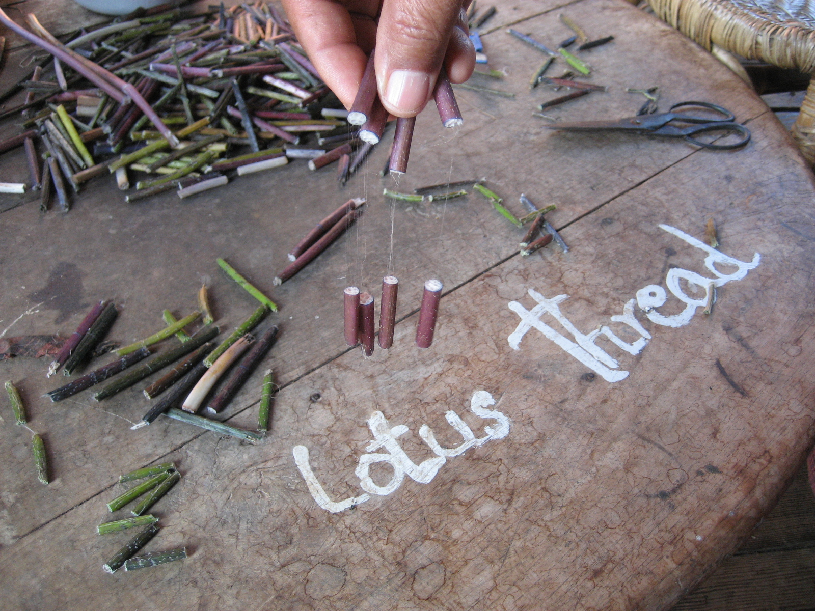 Lotus thread is a unique fabric for weaving a special robe for the Buddha called kya thingahn (lotus robe) at Inle Lake, Shan State, Myanmar.